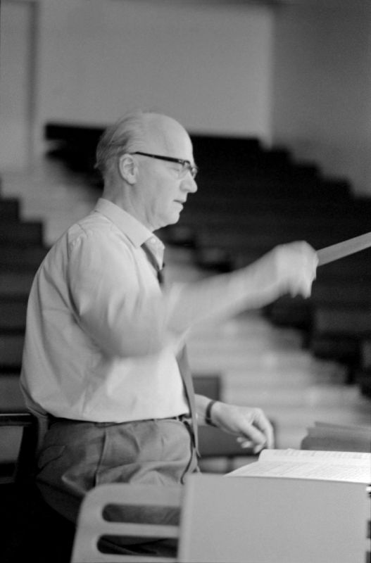 Photograph of the Finnish conductor Eero Kosonen (1906–2002) rehearsing Tampere Philharmonic Orchestra at the main auditorium of Tampere University.